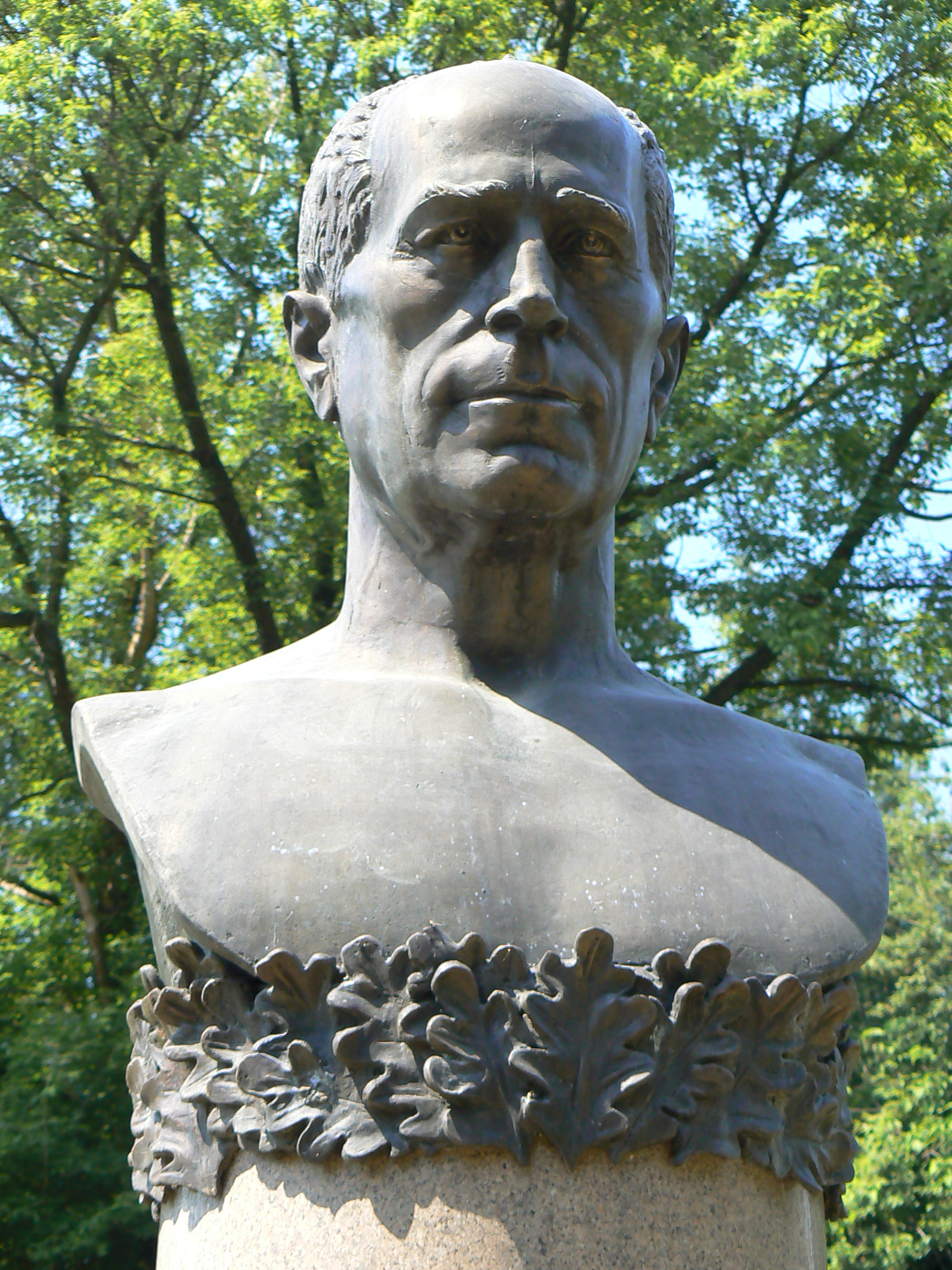 Monument of Bulgarian writer Nikolay Haytov (1919-2002) in Borisova Garden, Sofia